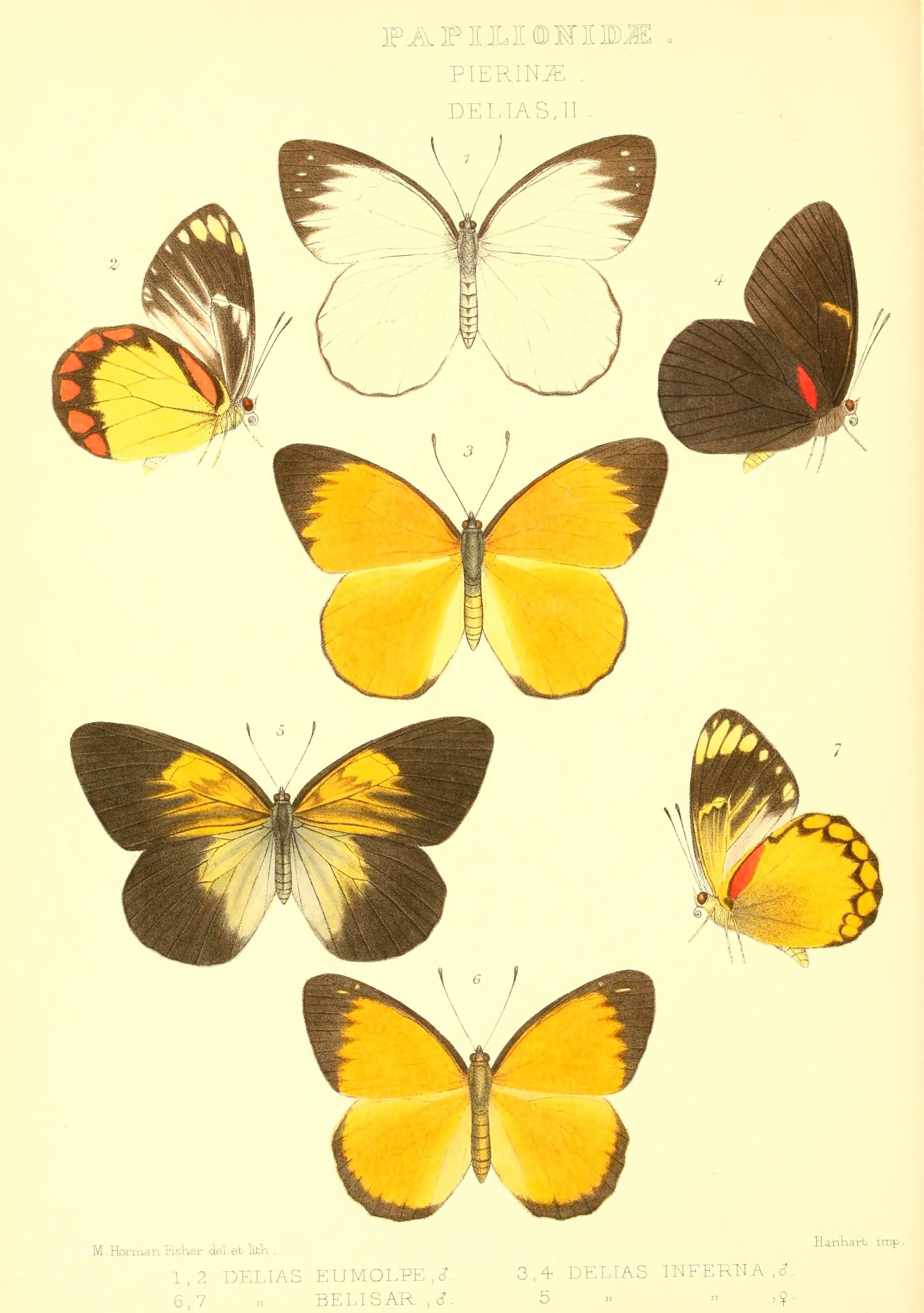 Grose-Smith, H. & Kirby, W.F. (1887-1892): Rhopalocera exotica, being illustrations of new, rare and unfigured species of butterflies London 1:x, [1-183]. Plate Delias II Delias eumolpe Grose-Smith 1889 Delias inferna Butler, 1871 synonym for Delias aruna (Boisduval, 1832) Delias belisar Grose-Smith & Kirby, 1893 synonym for Delias belisama (Cramer, [1780])